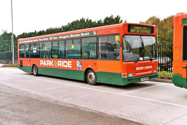 Thamesdown Transport Dennis Dart bus in park & ride livery